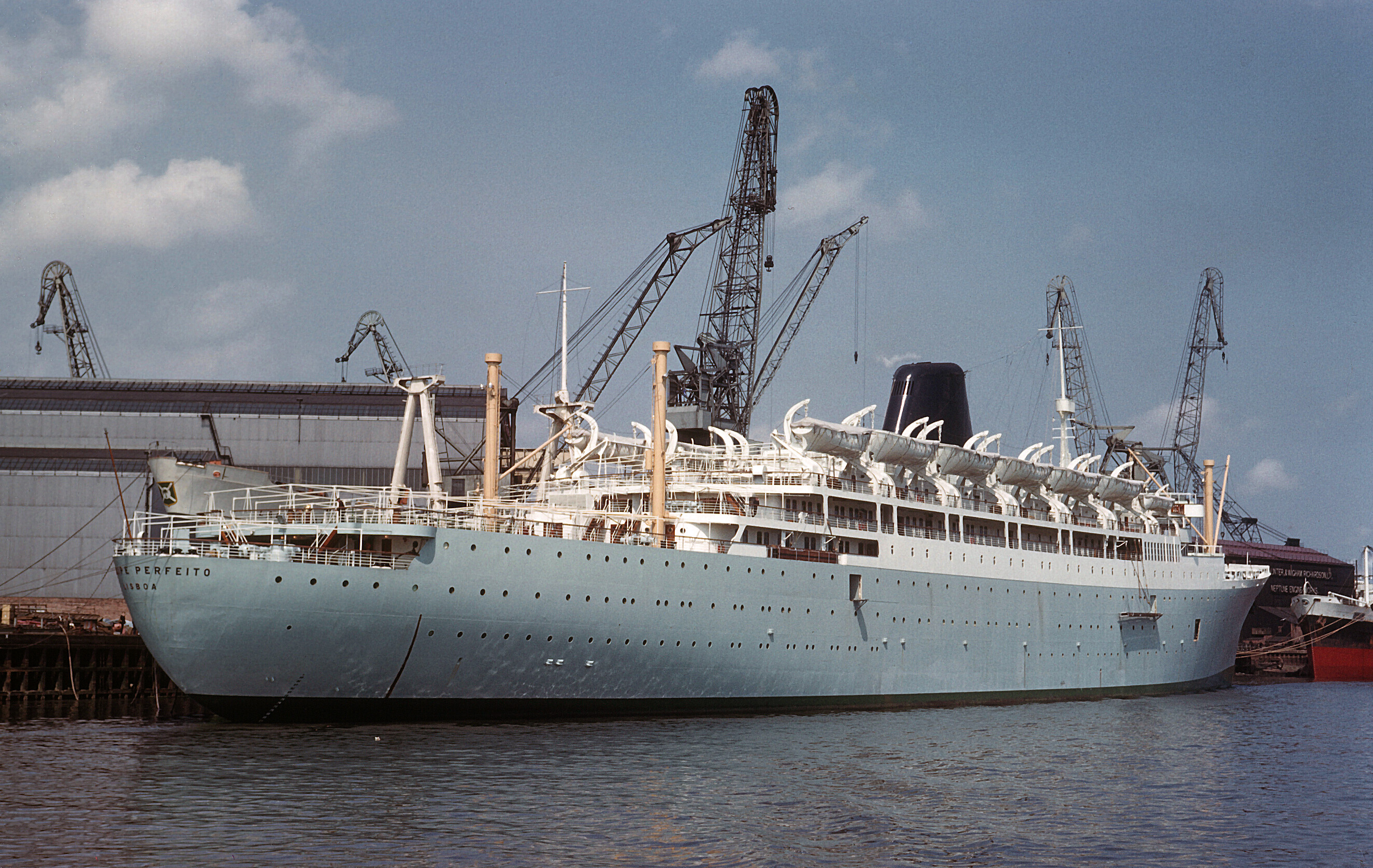 The liner Principe Perfeito at the shipayrds Swan Hunter of Newcastle on May 31, 1961.